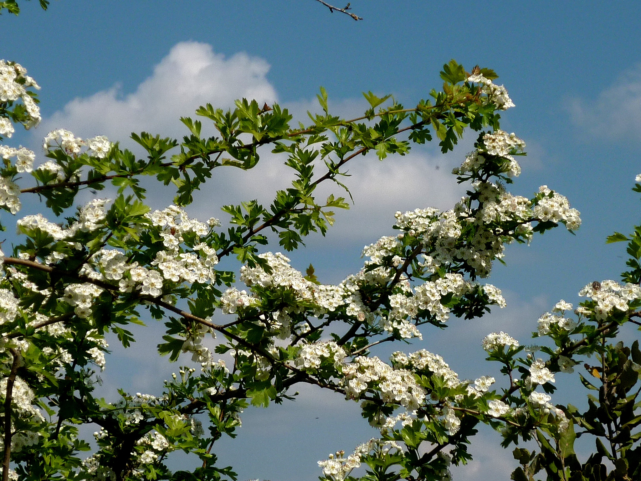 Crataegus monogyna. In Torà (Segarra-Catalunya). To 600 m. altitude